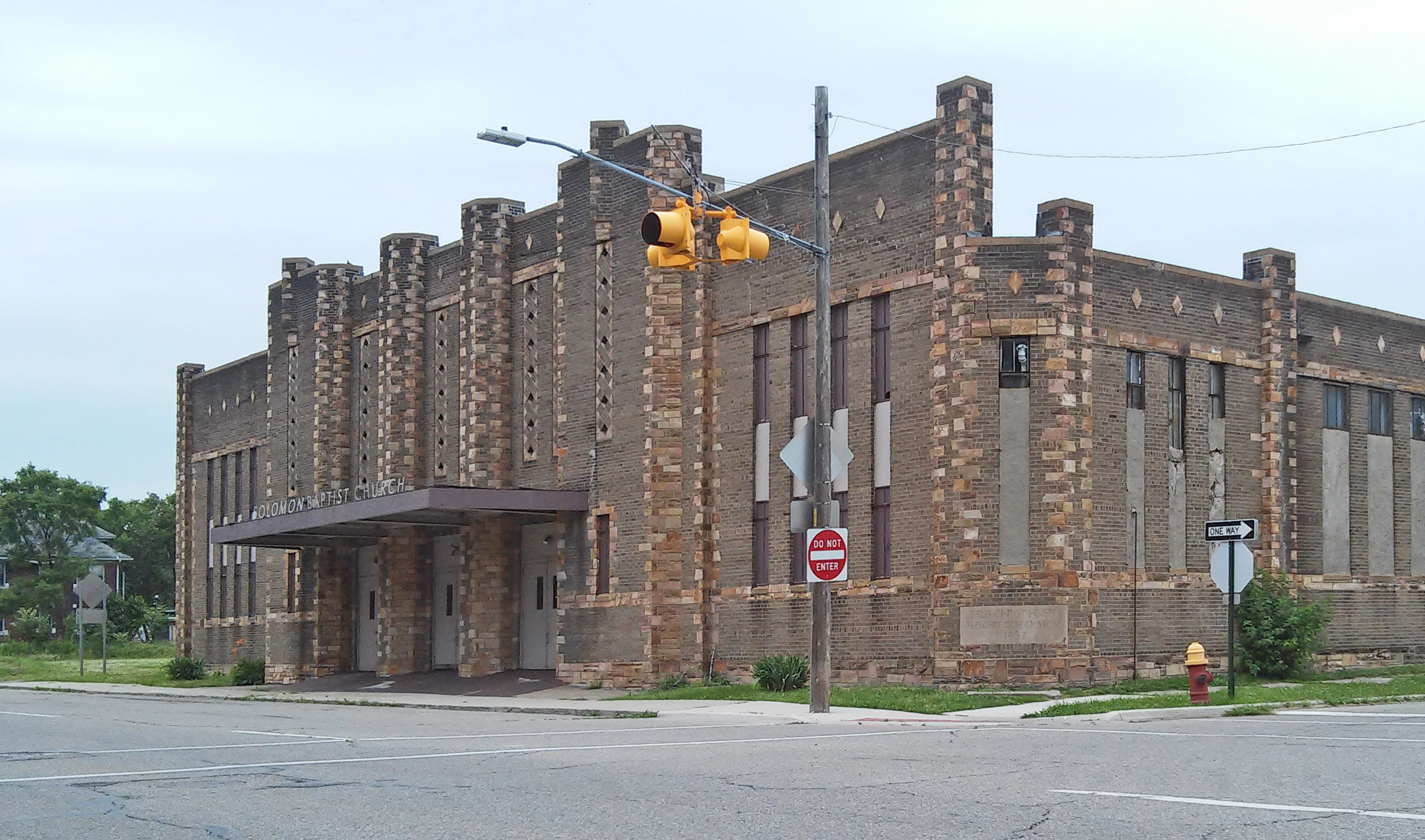 King Solomon Missionary Baptist Church, Detroit MI Main Auditorium